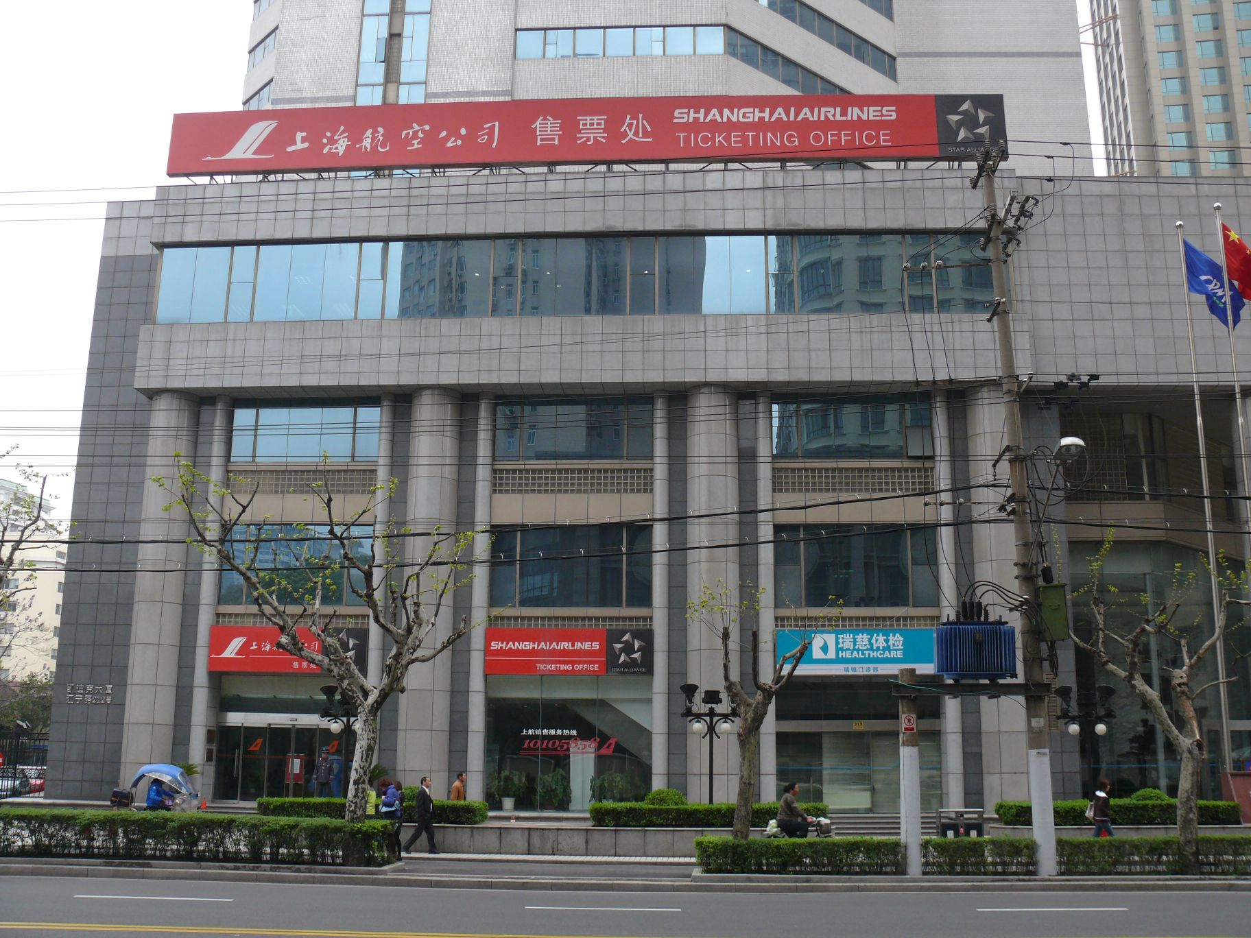 Former head office and ticketing office of Shanghai Airlines (212, Jiangning Road, Shanghai, 200041, China)